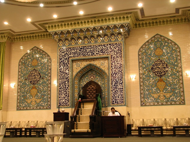 Iranian Mosque - Manama